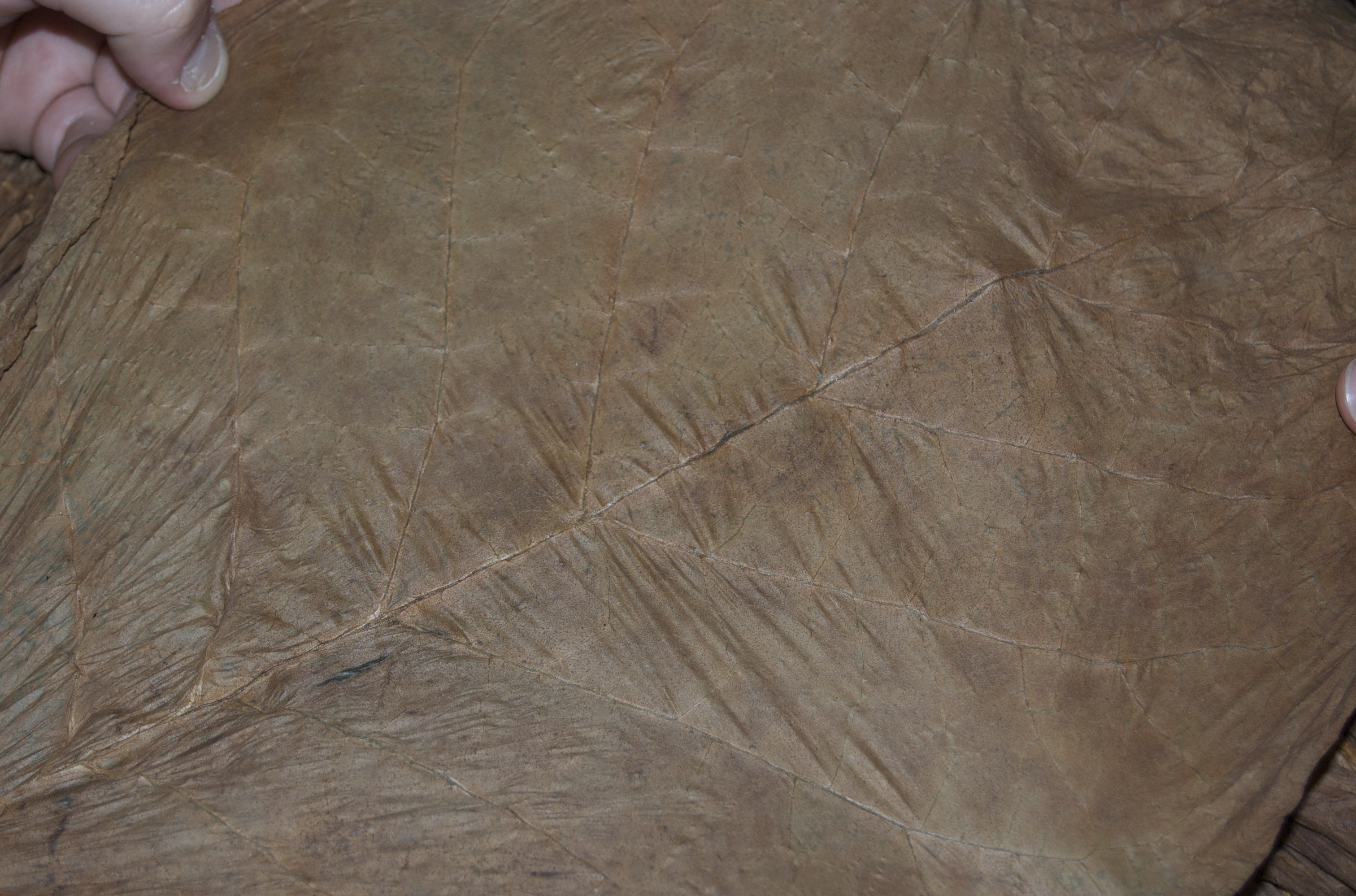 Ecuador Sumatra Tobacco Leaf Post Fermentation